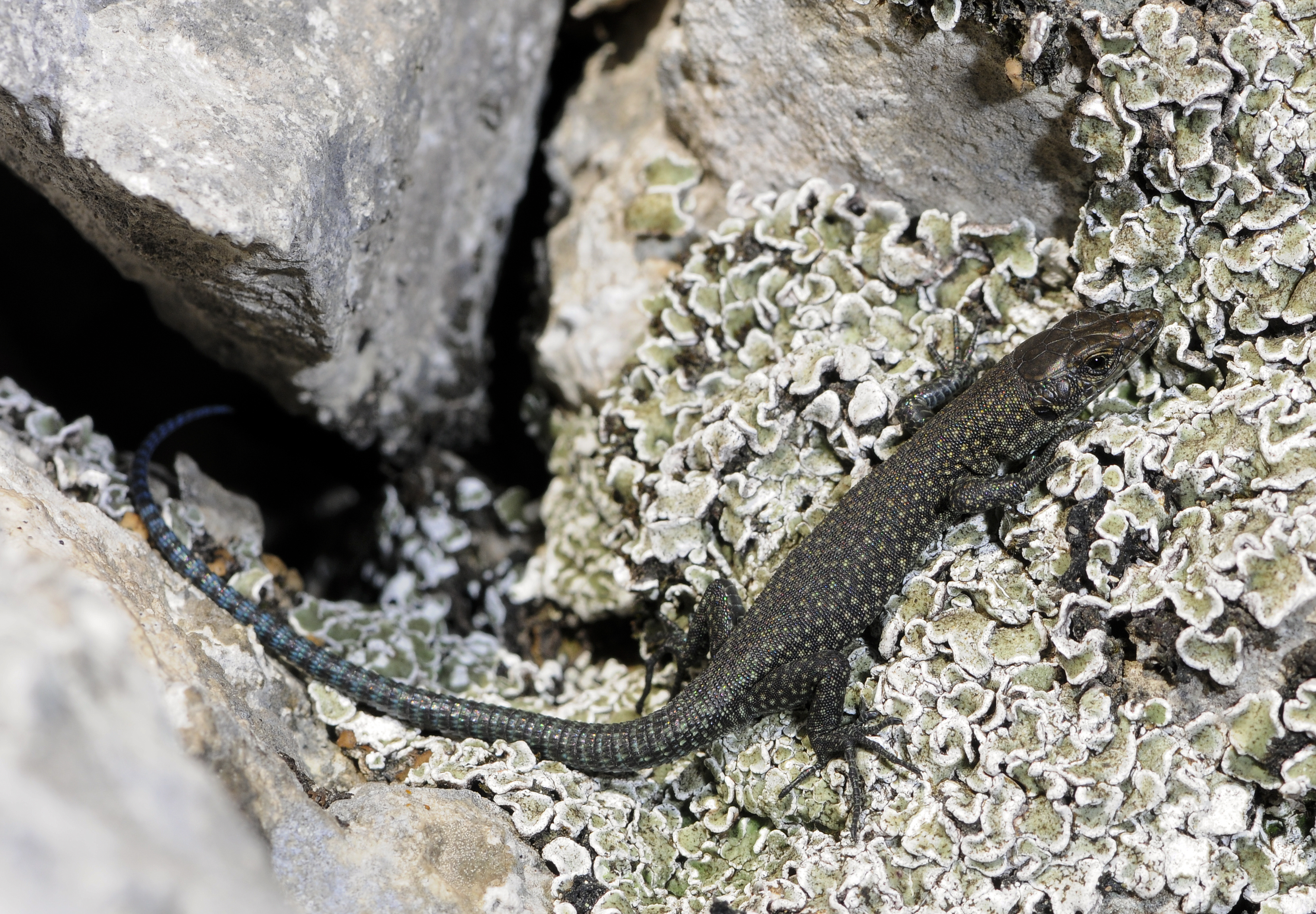 Dalmatolacerta oxycephala juvenile